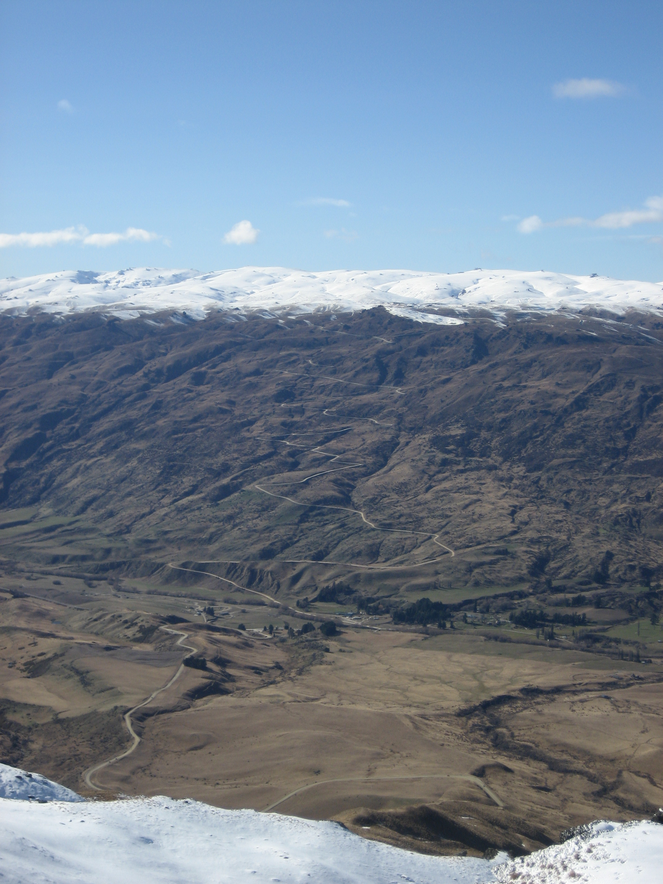 The access road to Snow Park - where Race to the Sky is run in New Zealand.